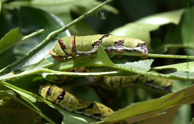 Papilio demoleus caterpillar, India